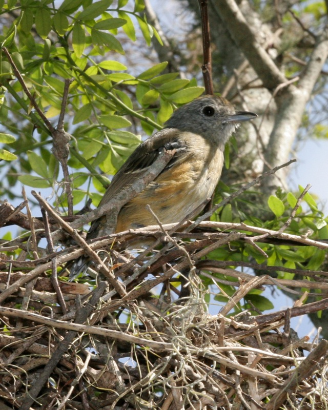 Variable Antshrike Thamnophilus caerulescens female Ibera Marshes 2nd. April 2006 Distribution